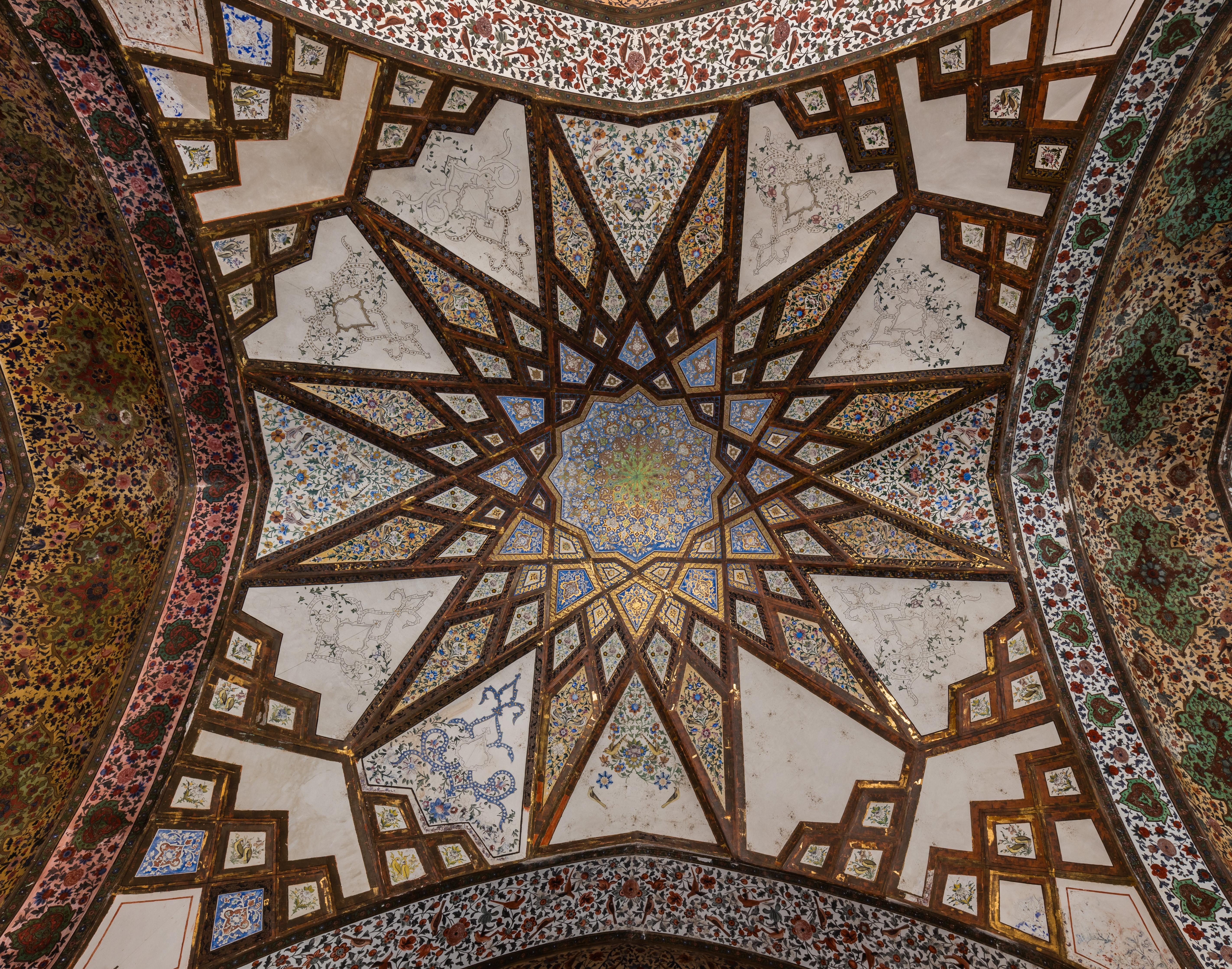 View of one of the domes of the Kushak located in the center of Fin Garden, city of Kashan, Iran. The site, a historical Persian garden, was completed in 1590 and is the oldest garden in Iran. Its bath was the scene of the murder of Amir Kabir, the Qajarid chancellor.